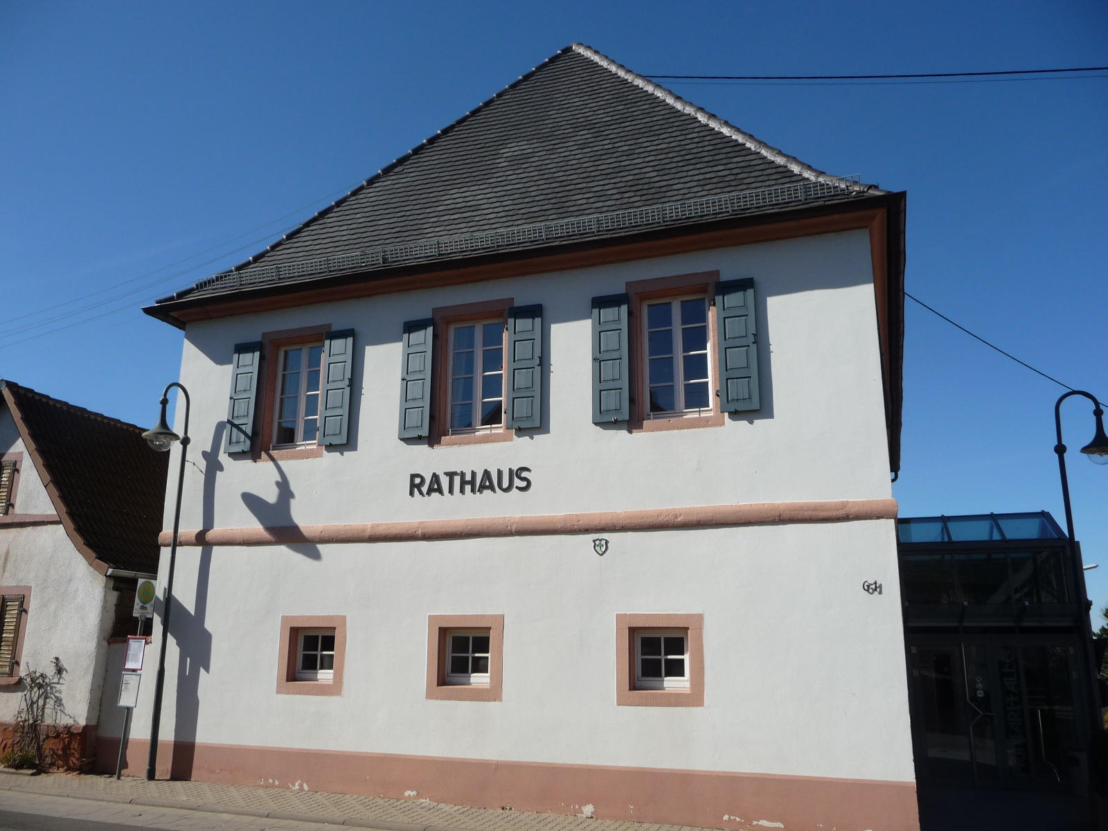 Freimersheim in Rhineland-Palatinate, Germany